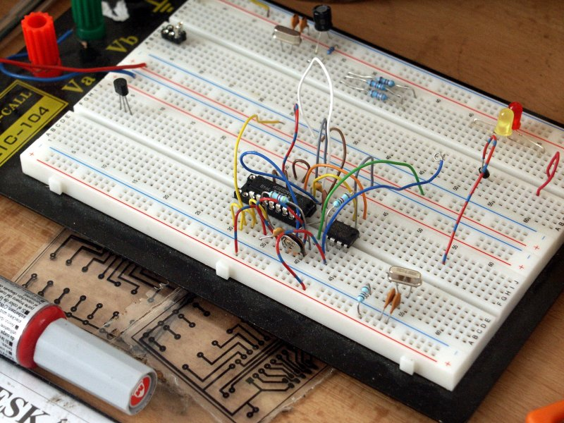 Breadboard